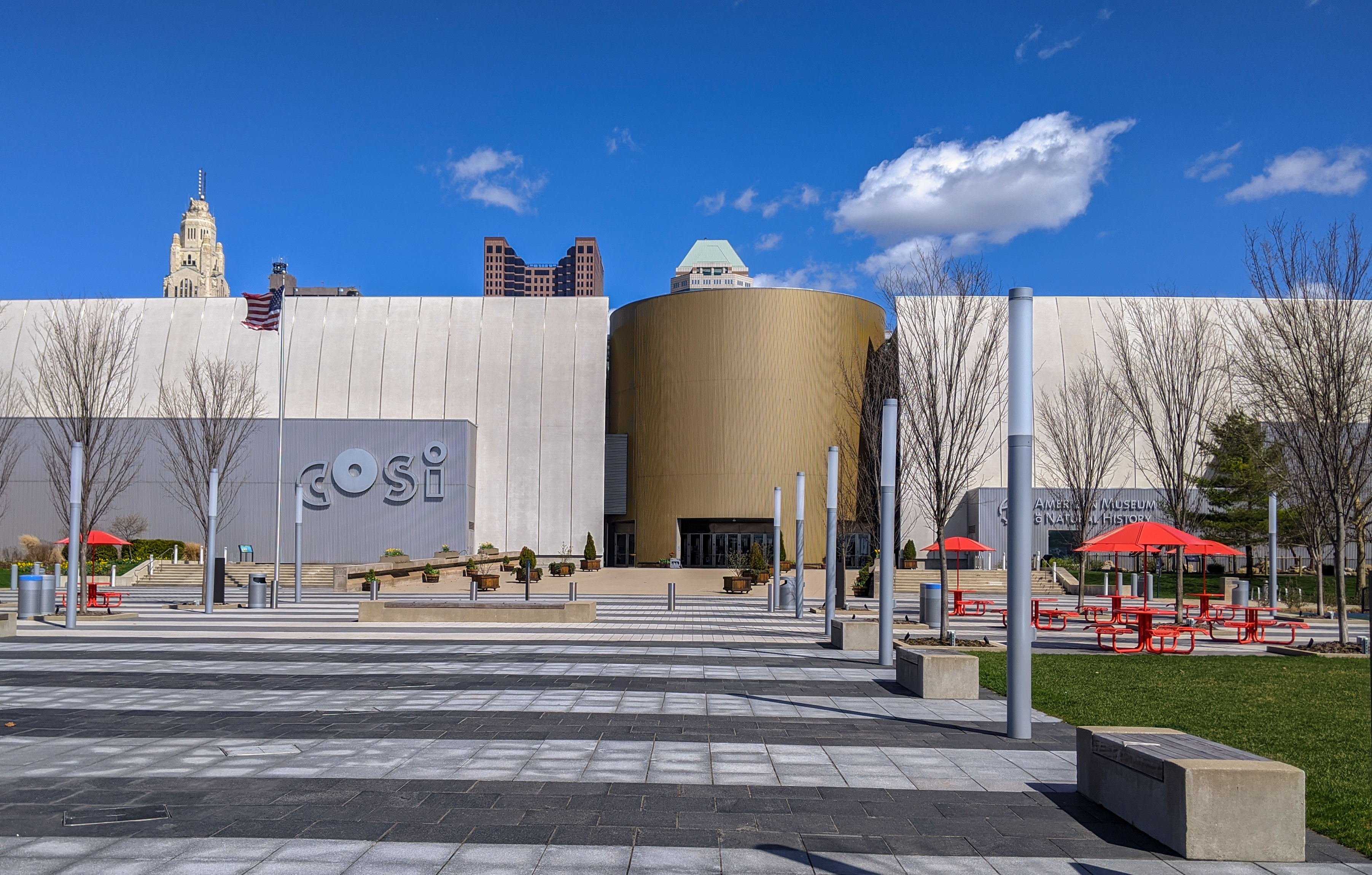 COSI in Columbus, Ohio.